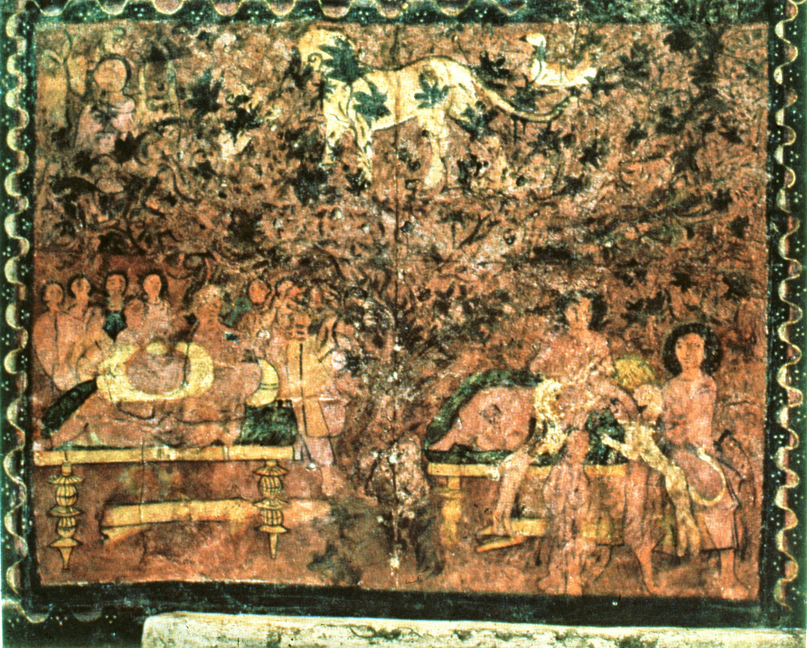 Central panel above the Torah niche in Dura Europos synagogue.